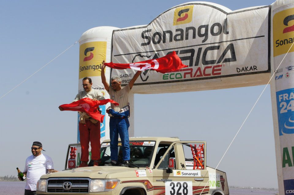 Africa Eco Race 2012